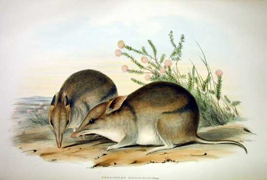 Perameles bougainville (originally Perameles myosurus)